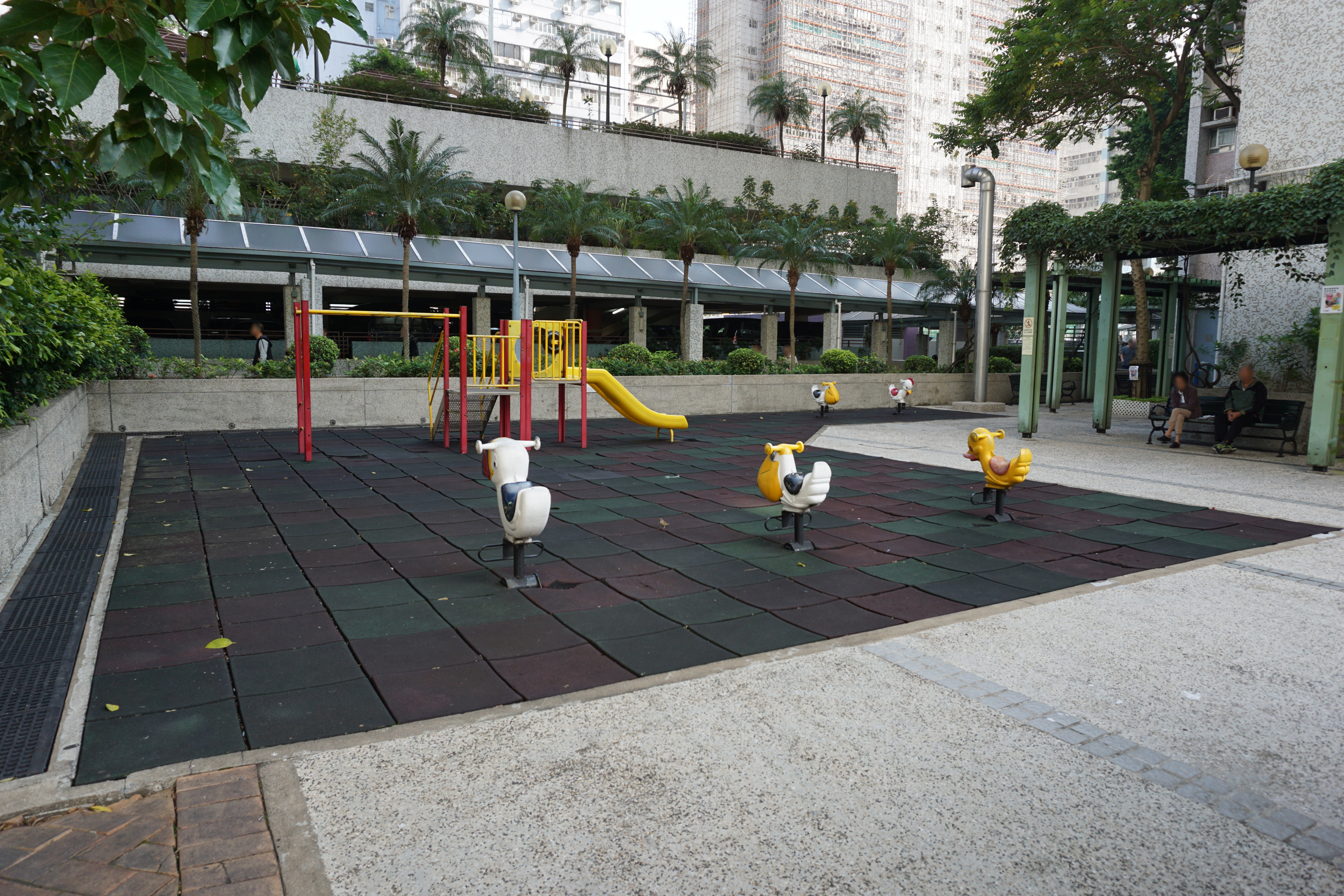 Kwai Chun Court in Kwai Hing, Hong Kong.